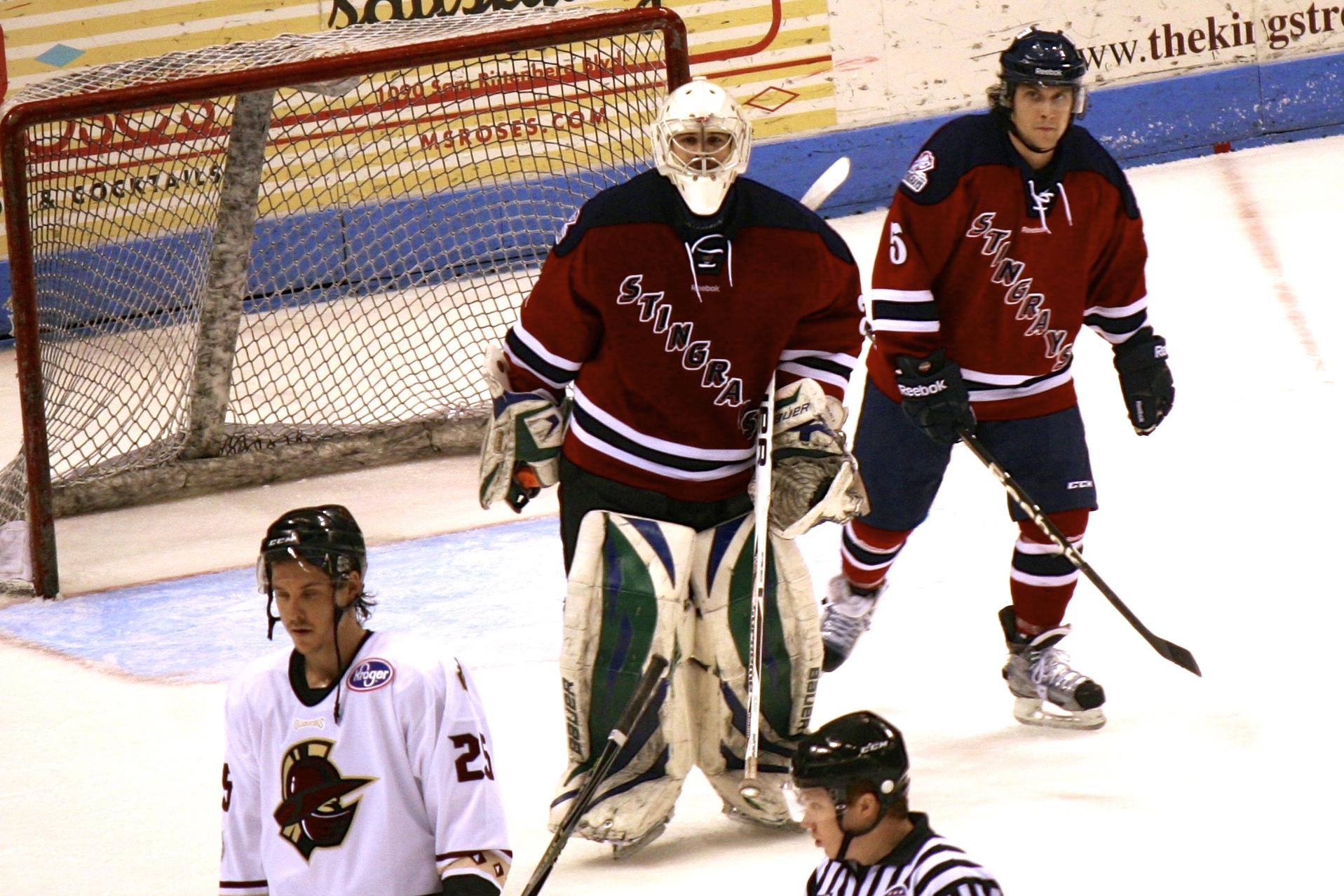 One of the many pictures that I took at a Stingrays game I attended a couple of years ago.